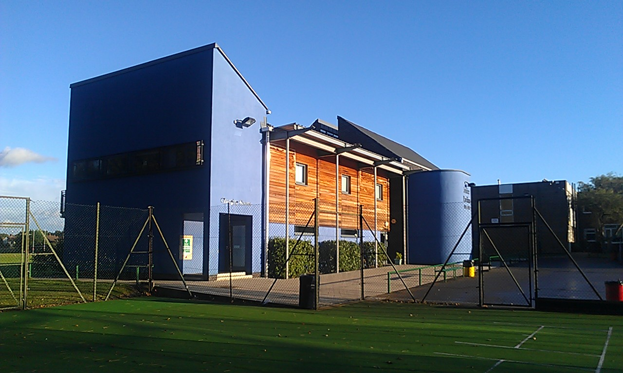 Sports block at Chislehurst and Sidcup Grammar School, as is visible from the adjacent Glades, a public pathway.